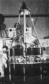 Pioneer. The earliest of the U.S. space probes provided the kind of flexibility for the deep-space investigator that Explorers provided for earth-satellite missions. Pioneer 8 in the photo is prepared for December 1967 launch into orbit of the sun.